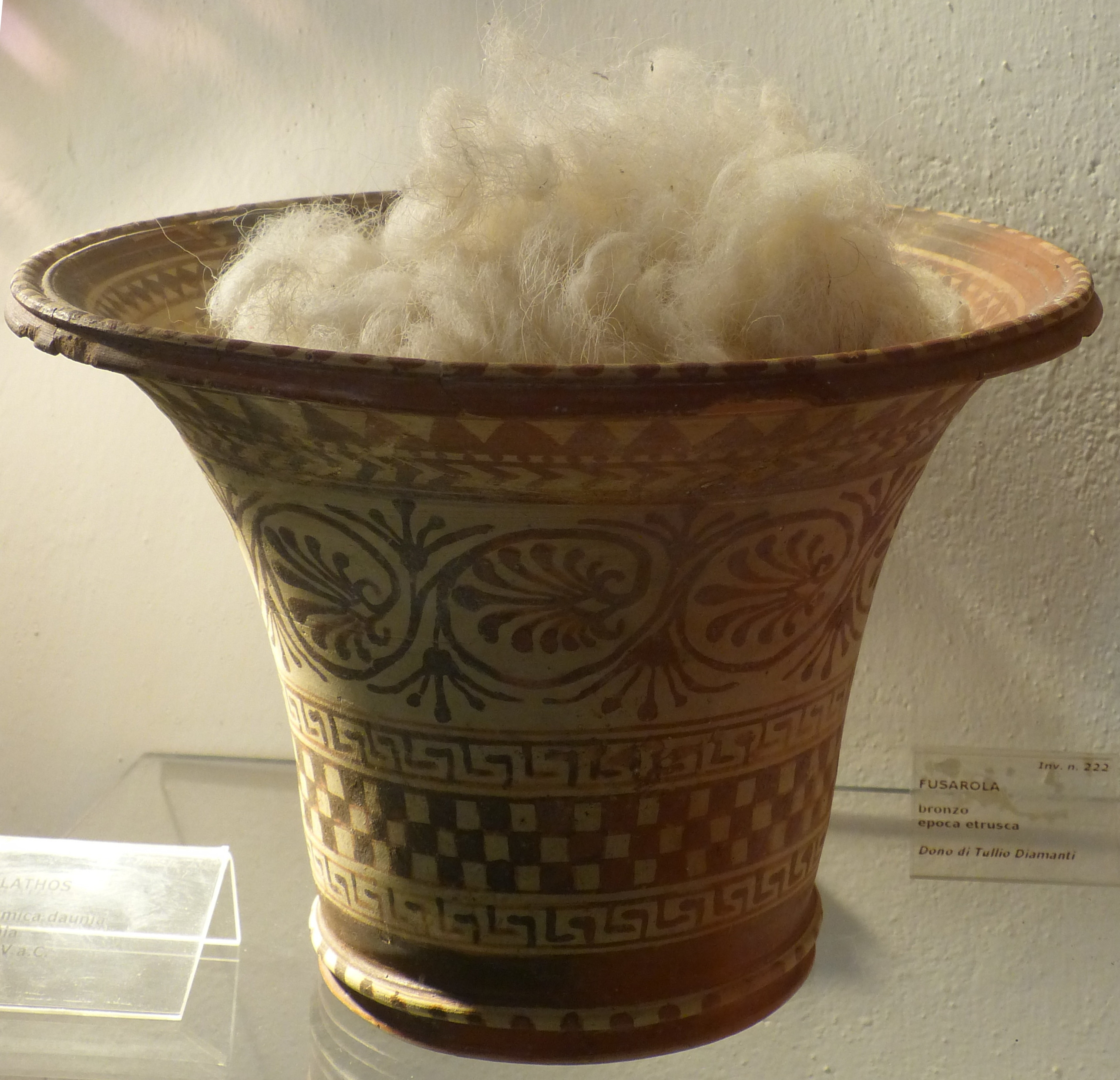 Torgiano ( Umbria ). Olive and oil Museum: Daunian kalathos ( 4th century BC )